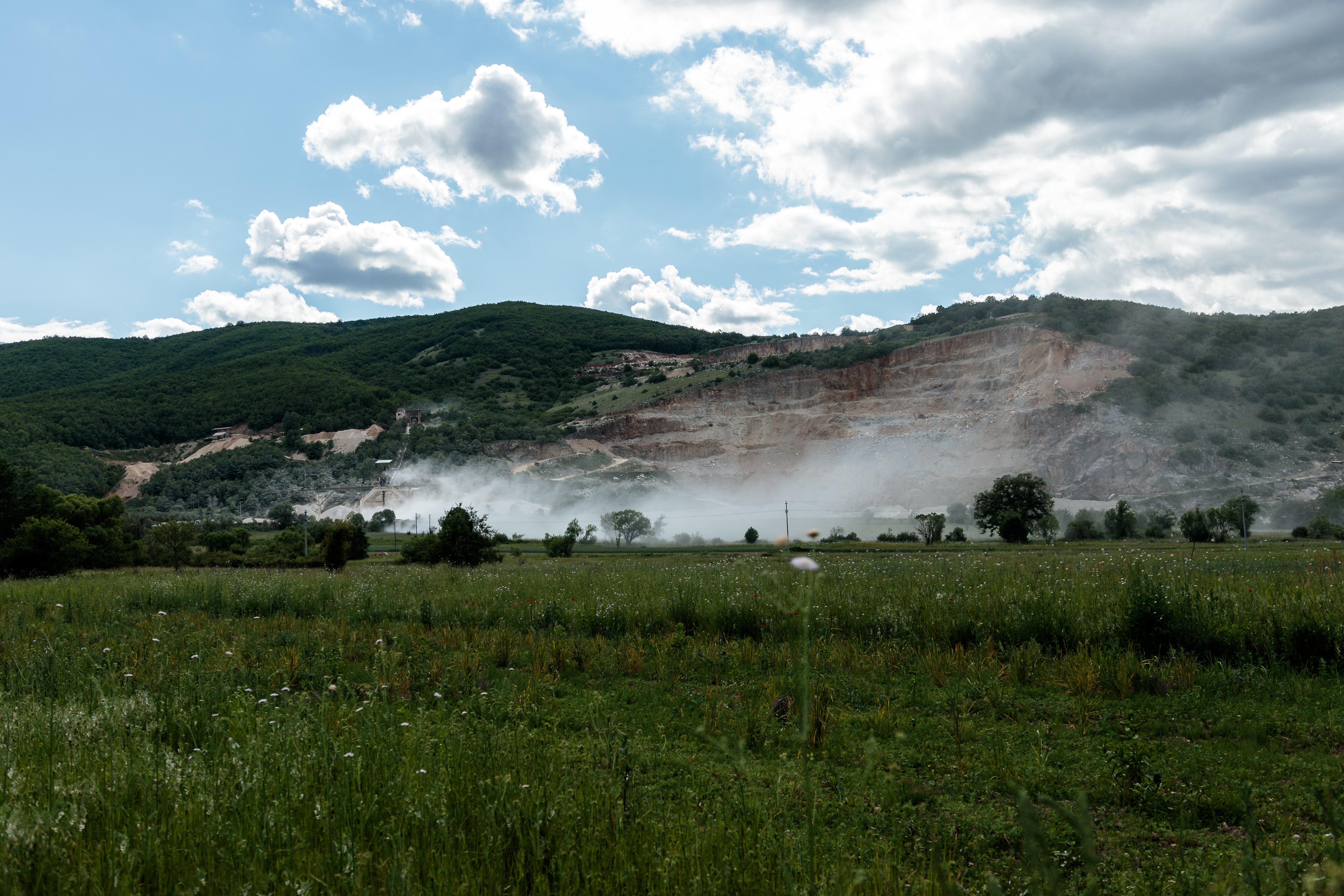 View of the mine Demir Hisar